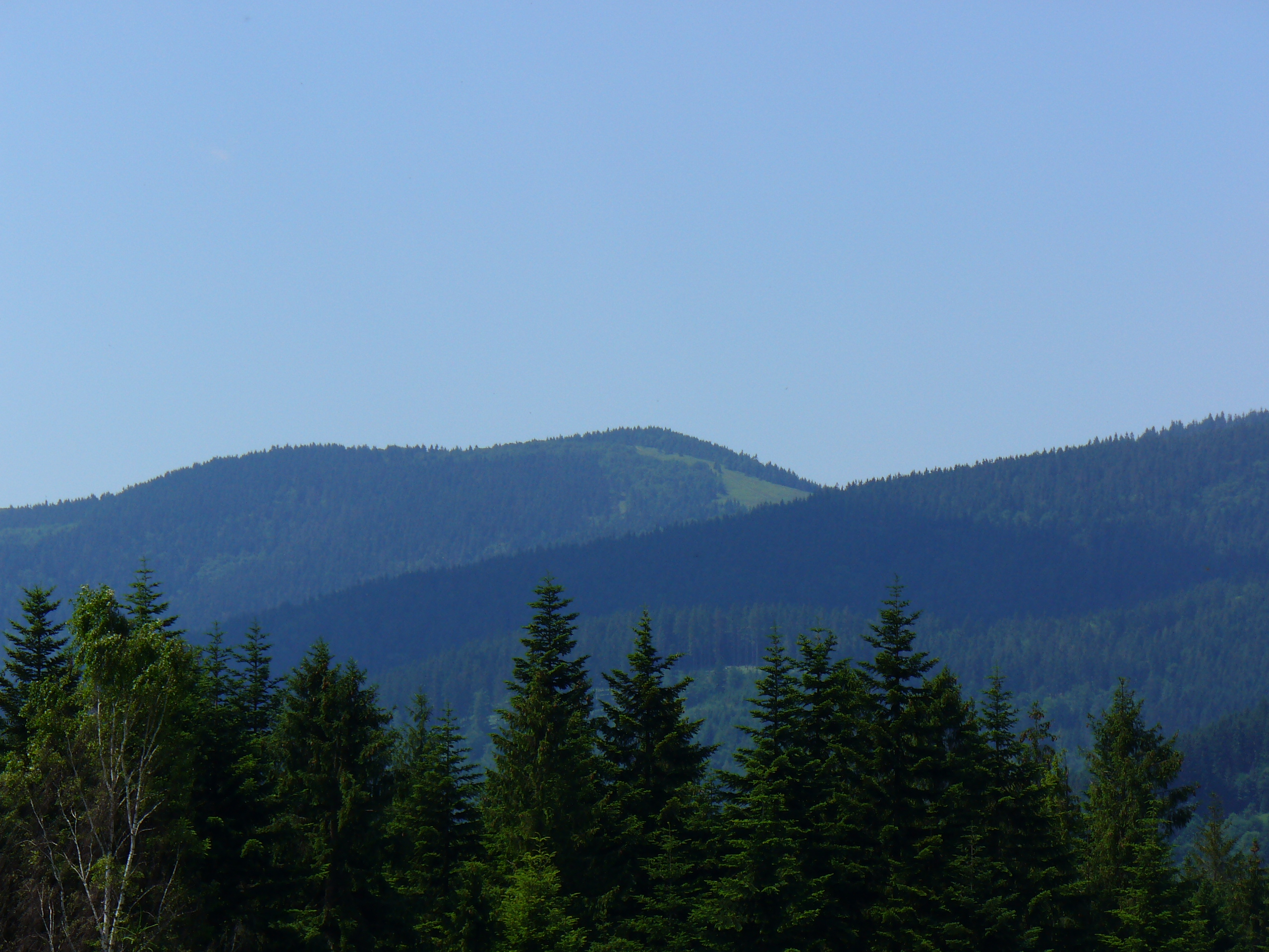 Rycerzowa